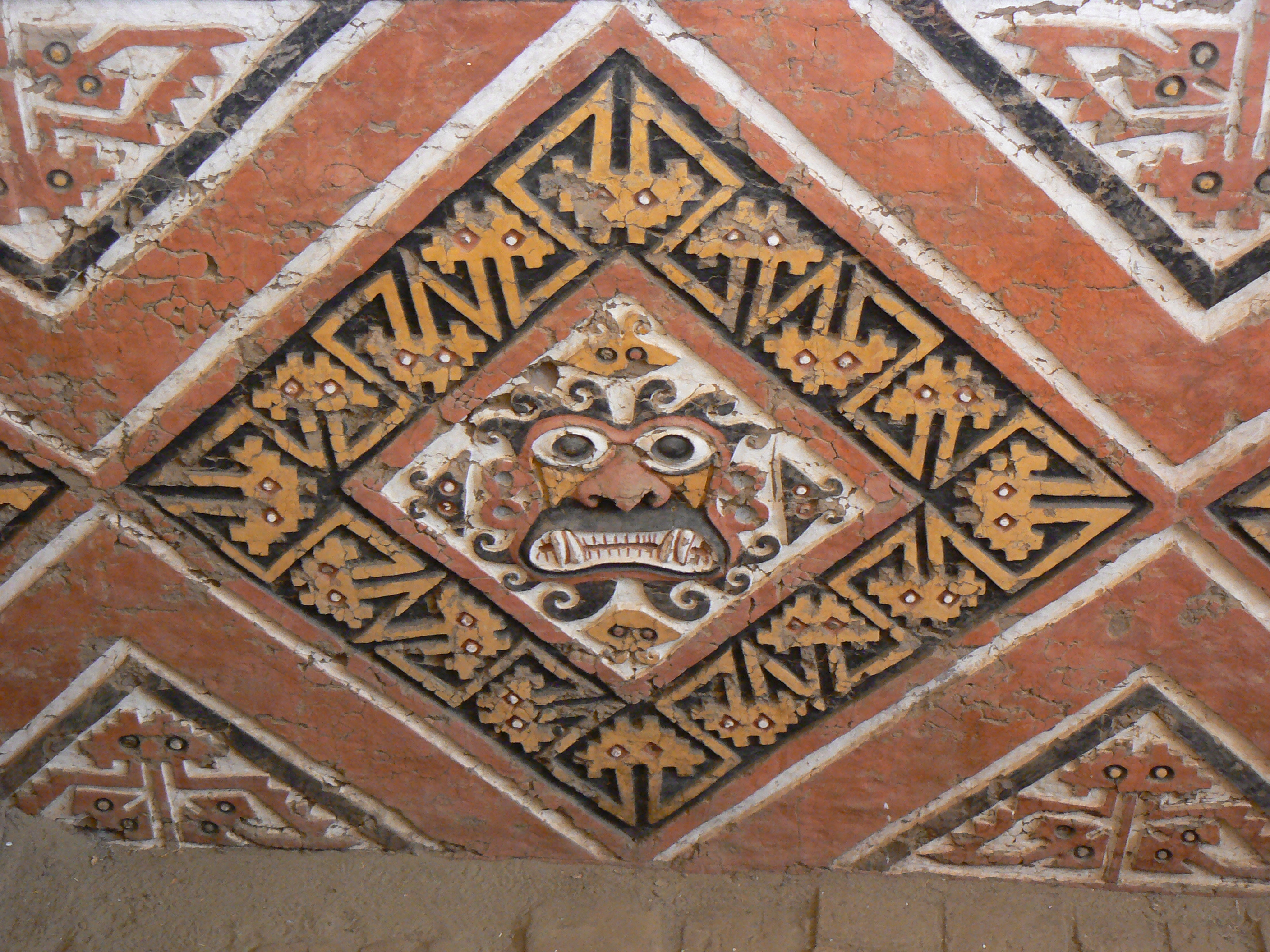 This diety motif of the decapitator repeats around layers of the original adobe pyramid from the Moche culture from 100 AD to 800 AD.